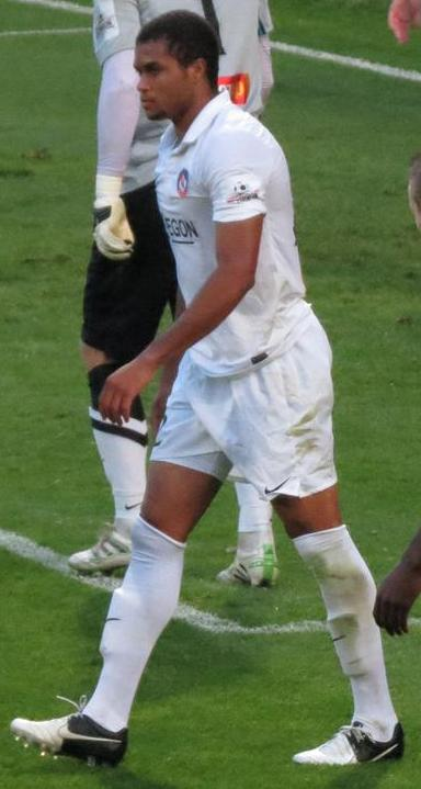 Photo - Brazilian footballer Ramón Rodríguez da Silva